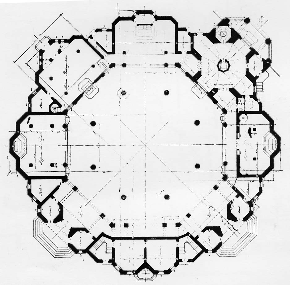 Plan for Białystok Kościół Crystusa Króla i św. Rocha (Church Christ the King and St. Roch) 1927- (Architektura i Budownictwo, vol. 3 1927, no. 8, pp. 243-245)